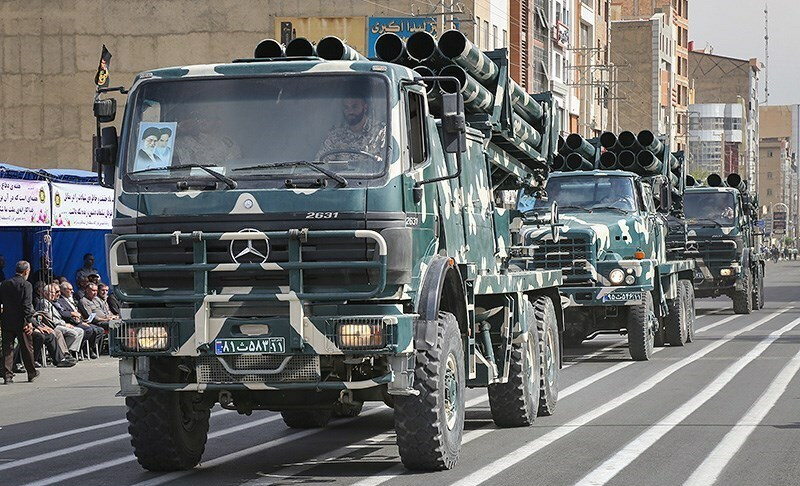 One Fajr-3 MRLS, followed by one (North Korean built) M-1985 MLRS, followed by one Fajr-5 MLRS at a parade in Tehran.